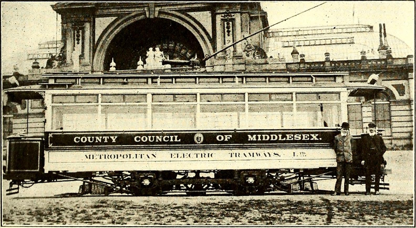 Title: The Street railway journal Year: 1884 (1880s) Authors: Subjects: Street-railroads Electric railroads Transportation Publisher: New York : McGraw Pub. Co. Text Appearing Before Image: The accompanying illustration shows a car of the Metro-politan Electric Tramways, of London, equipped with anovel type of radial axles termed a steering control, Text Appearing After Image: RADIAL GEAR journal boxes to the main irame of the truck. The linksshown on either side of the journal boxes swing at an angleto the main frame, passing through radial slots in the yokebridge, which is the bar passing under the axle boxes, andconnect to knuckle joints concealed inside the journal-boxsprings. The pins passing through the lower ends of theselinks are set radially to the king-pin in the center of the car. To produce a movement which is the mechanical equiva-lent of this at the upper end of the links, where the spacedoes not permit of the pins being set radially to the king-pin, pins parallel to the axle are employed, passing througha bridge piece which rocks transversely on the axle box,while at the same time the axle box itself tilts or rotatesto and fro upon its journal. When the car is standing still it can be swayed hori-zontally several inches by hand, whenthe peculiar tilting action of theseboxes can be distinctly seen. A NEW AUTOMATIC STOKER CAR OF MIDDLESEX TRAMW